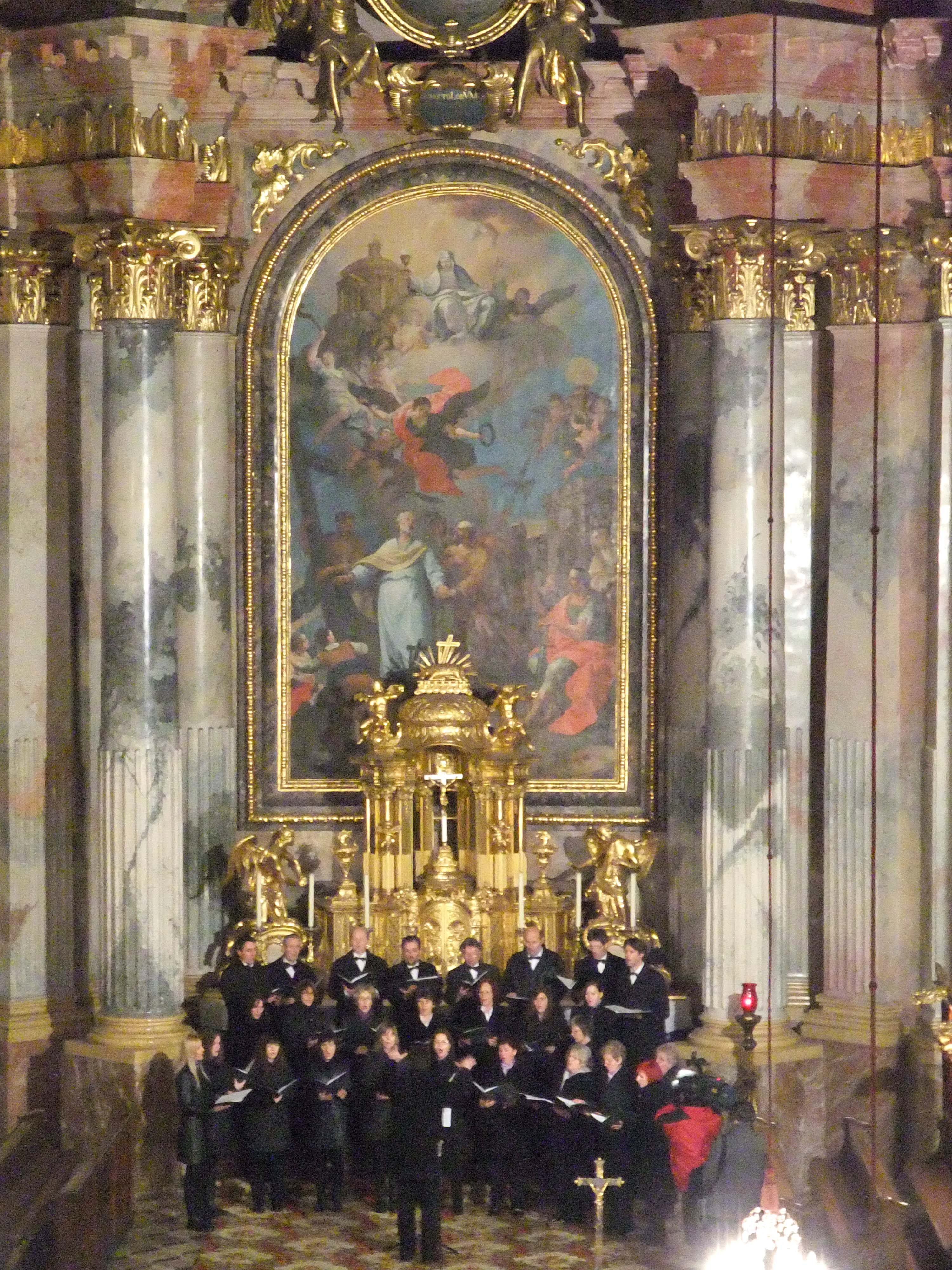 The Gallus choir sings before the main altar in the Cathedral of Klagenfurt /Austria / EU.